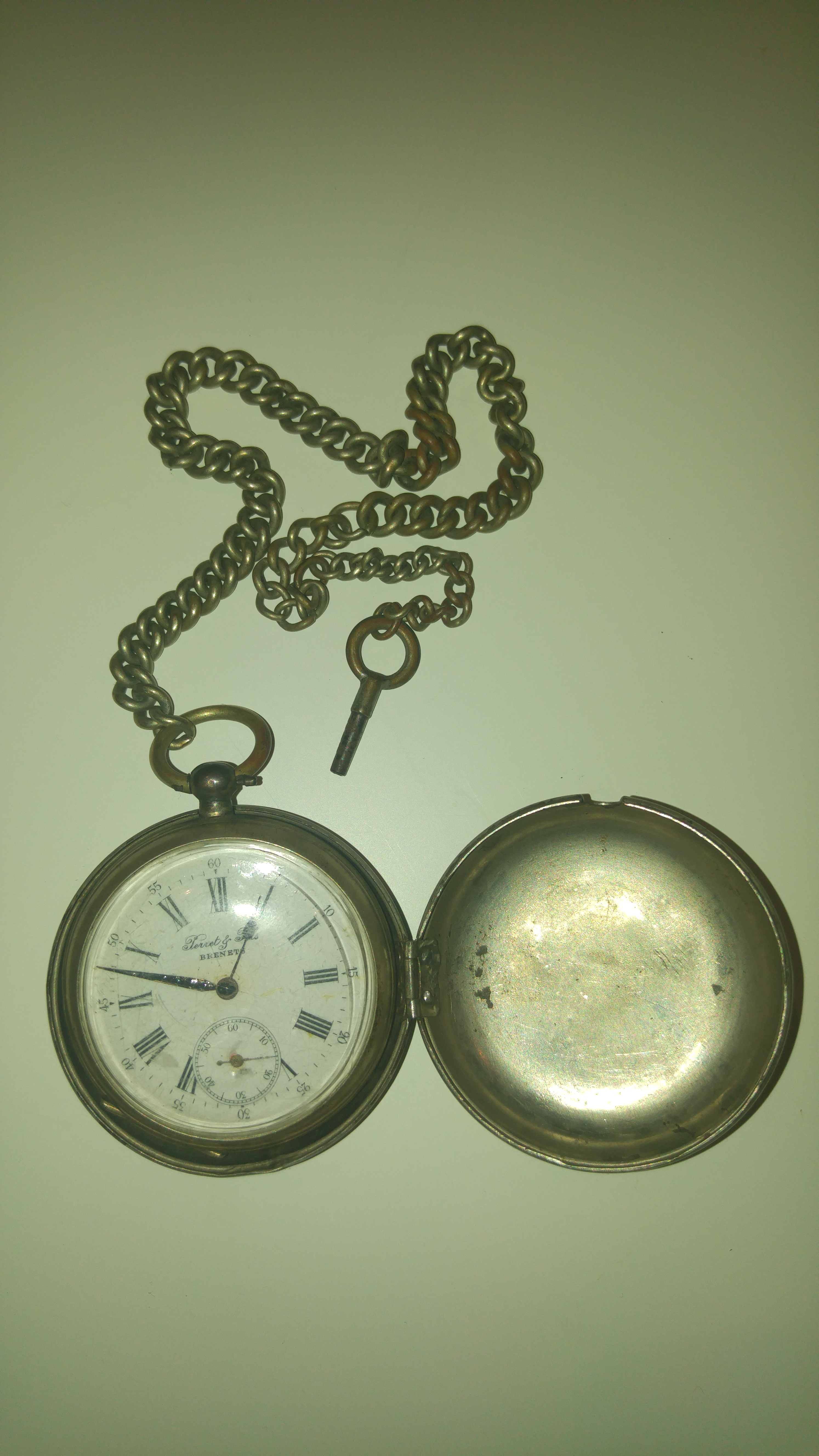 Taskukell, mis valmistati 1824. aastal.